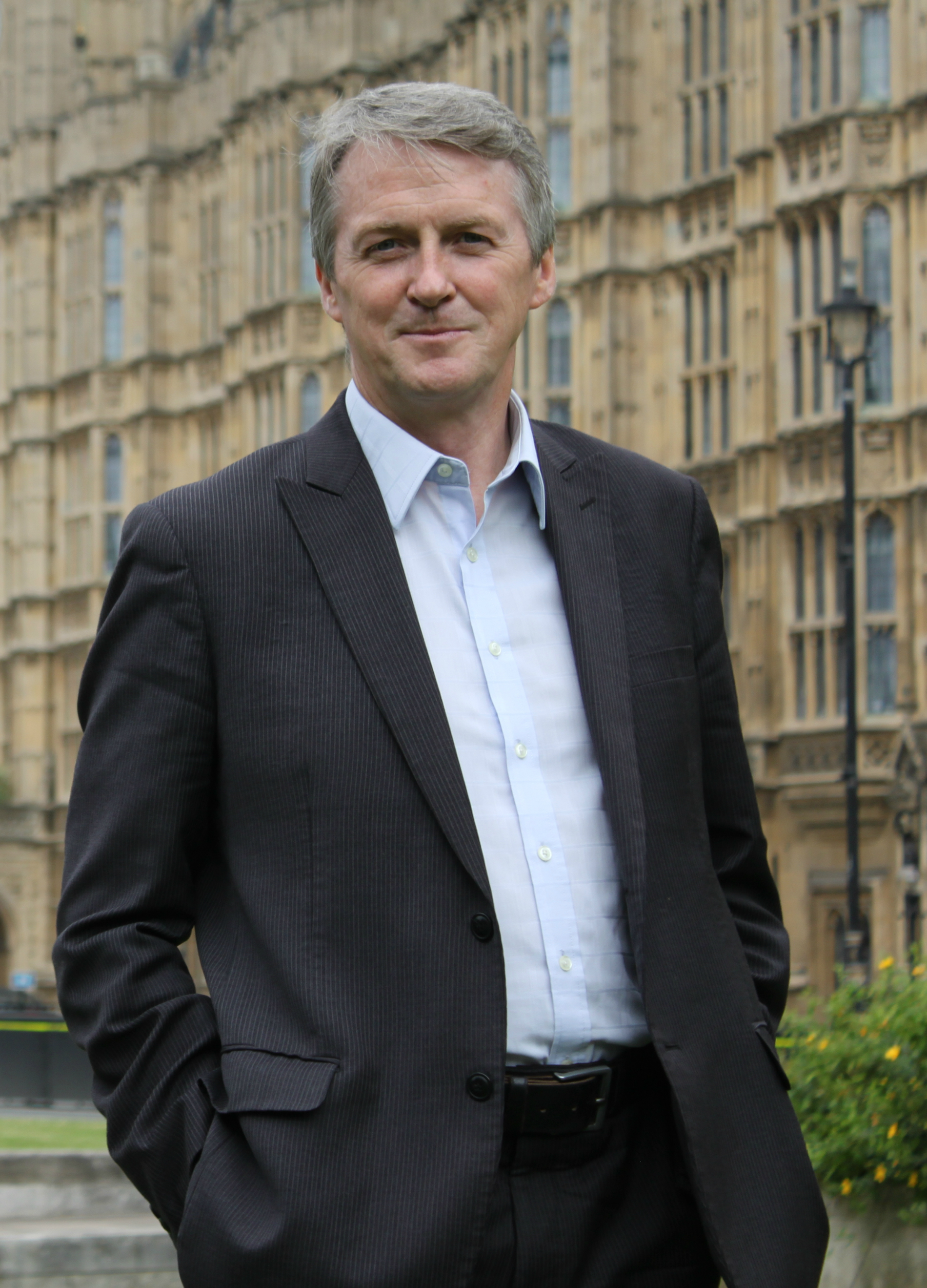 August 2014